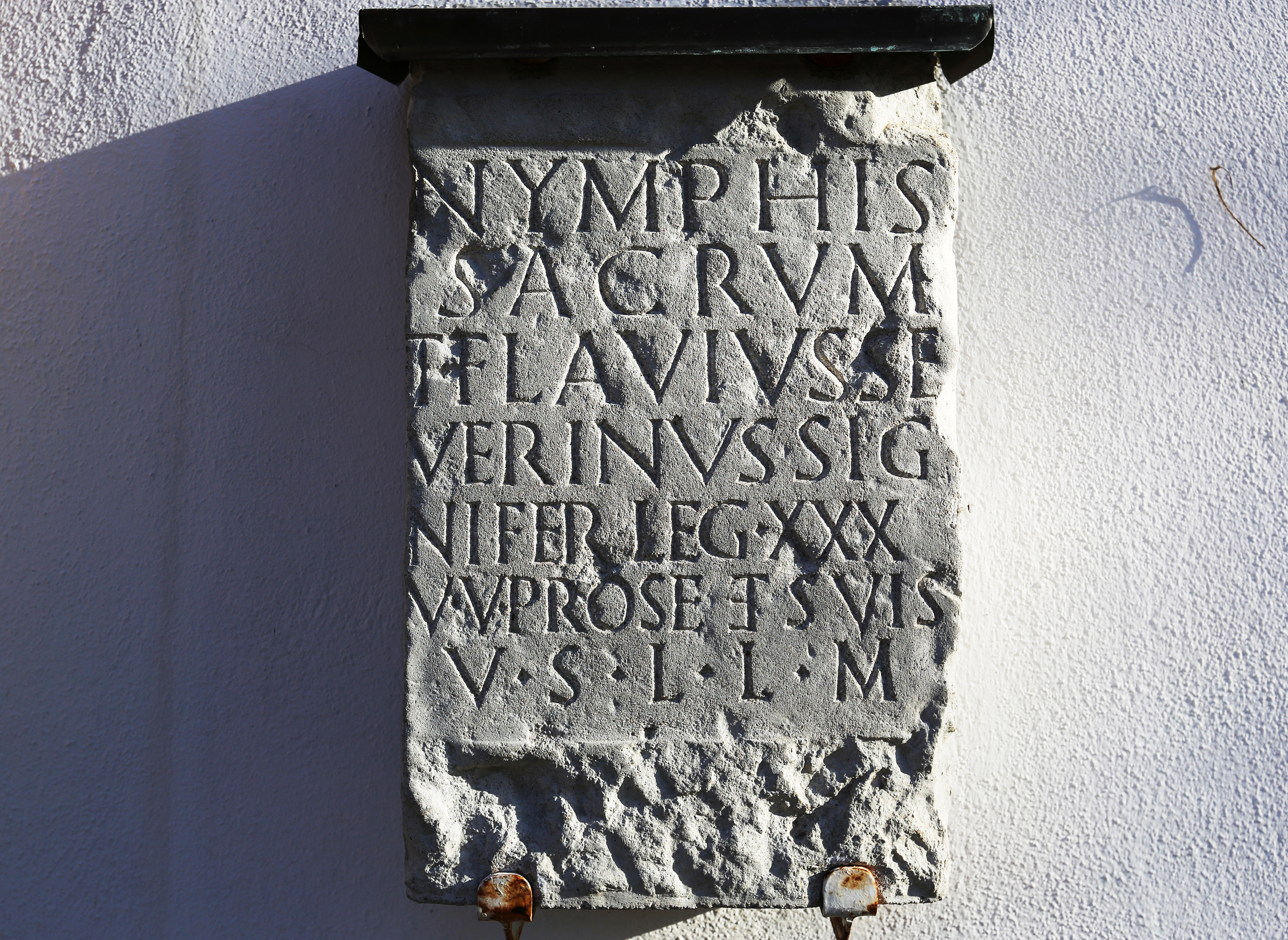 Ancient Roman inscription in Merten (Bornheim), North Rhine-Westphalia, Germany